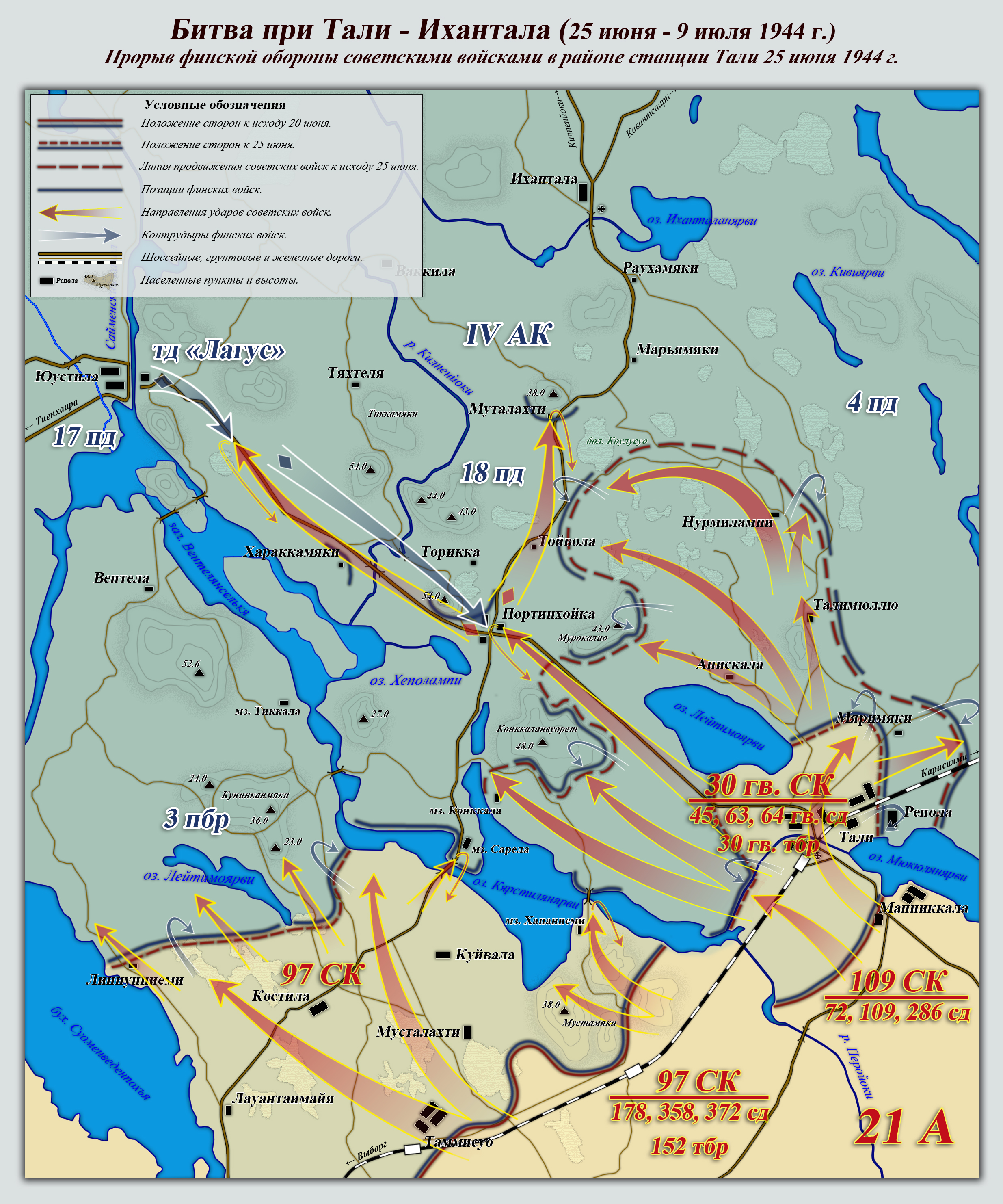 Battle of Tali-Ihantala. Part 1.